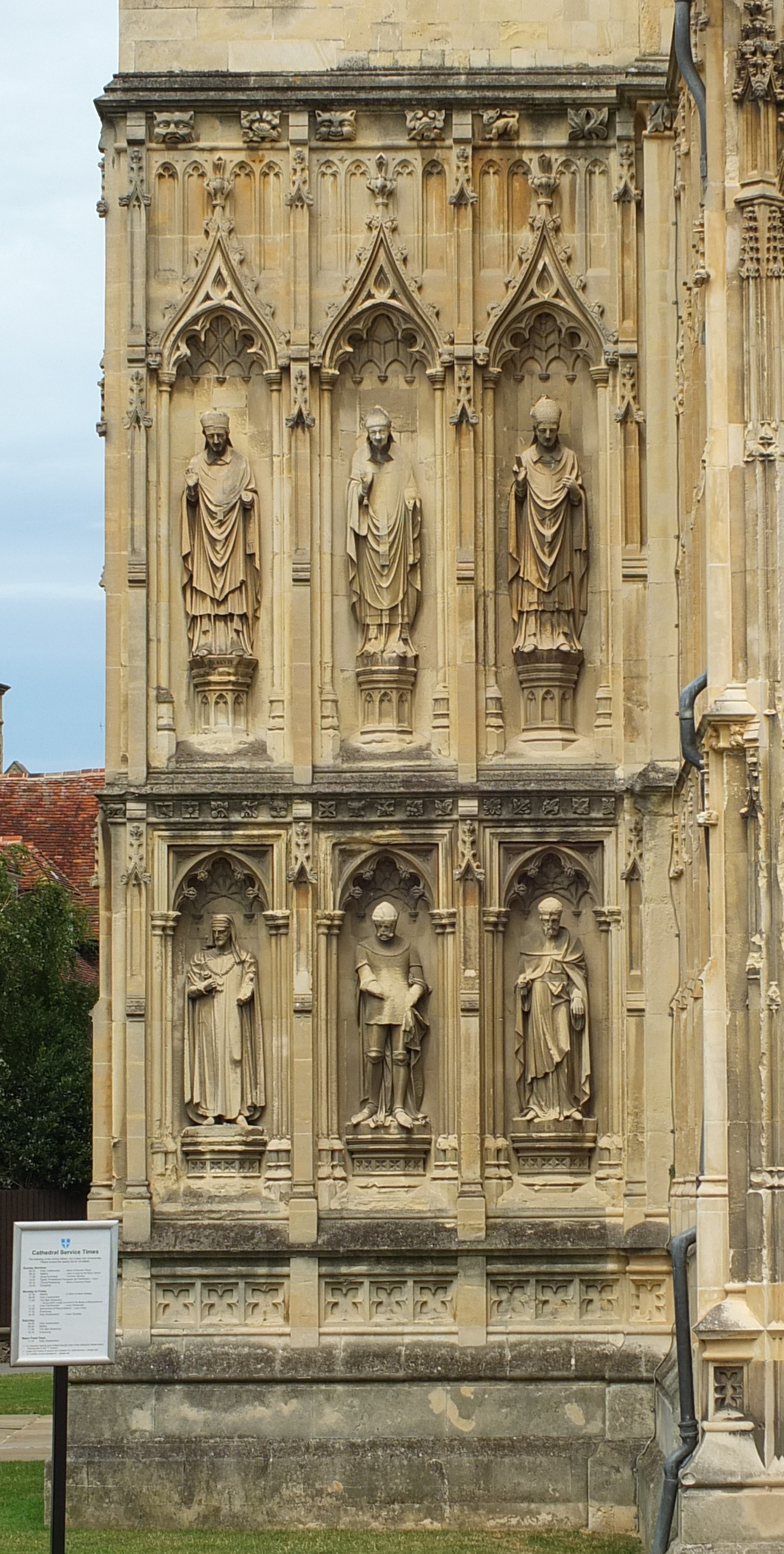 Sculptures on the West facade near the south west Porch of Canterbury Cathedral Top (left to right) Archbishop Simon Sudbury, also called Simon Theobald of Sudbury (c. 1316 - 1381), Bishop of London from 1361 to 1375, Archbishop of Canterbury from 1375 until his death . Archbishop William Courtenay (c. 1342 – 31 July 1396), Archbishop of Canterbury, 1381-1396. Archbishop John de Stratford (c.1275 - 1348), Archbishop of Canterbury, 1333-1348 and Treasurer and Chancellor of England . Bottom: left to right King Edward III (1312-1377), son of Edward II and Isabella of France; king of England 1327-1377. King Henry IV (Bolingbroke Castle 1366 - Westminster Abbey 1413), Son of John of Gaunt and Blanche of Lancaster - grandson and heir male of Edward III, king 1399-1413 . Edward of Woodstock (1330 - 1376), called the Black Prince, eldest son of King Edward III and Philippa of Hainault, and the father of King Richard II of England. He was the first Duke of Cornwall (from 1337), the Prince of Wales (from 1343) and the Prince of Aquitaine (1362–72) .